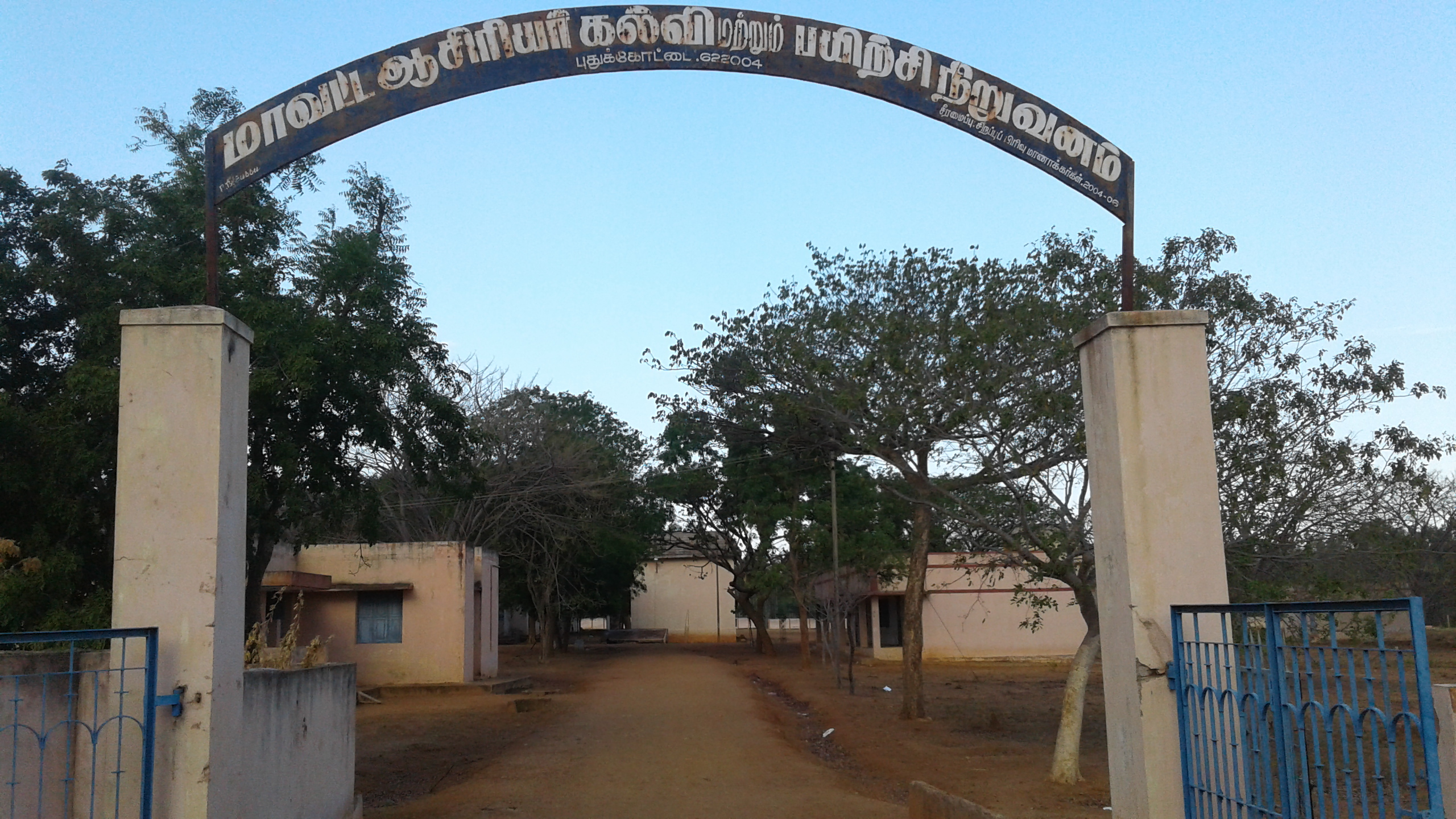 மாவட்ட ஆசிரியர் கல்வி மற்றும் பயிற்சி நிறுவனம், புதுக்கோட்டை